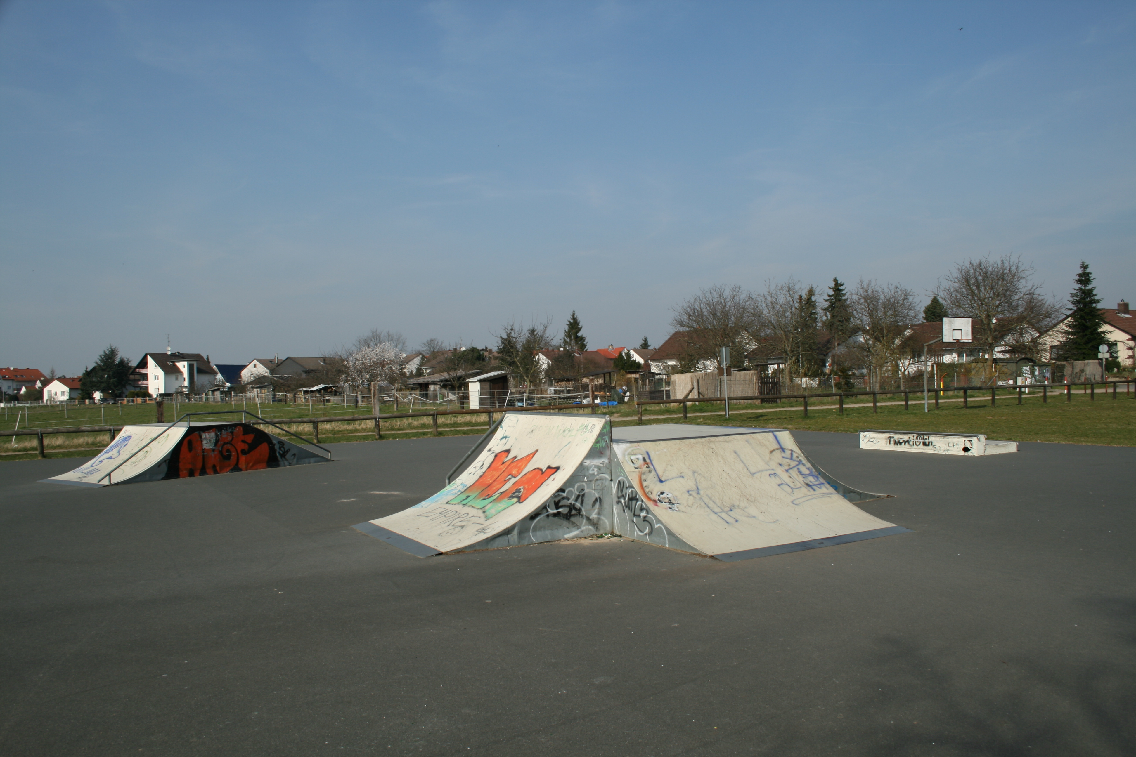 Skatepark in Pfungstadt